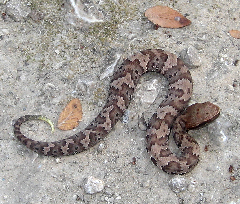 Picture taken at Challenger Seven Memorial Park near Webster, Texas